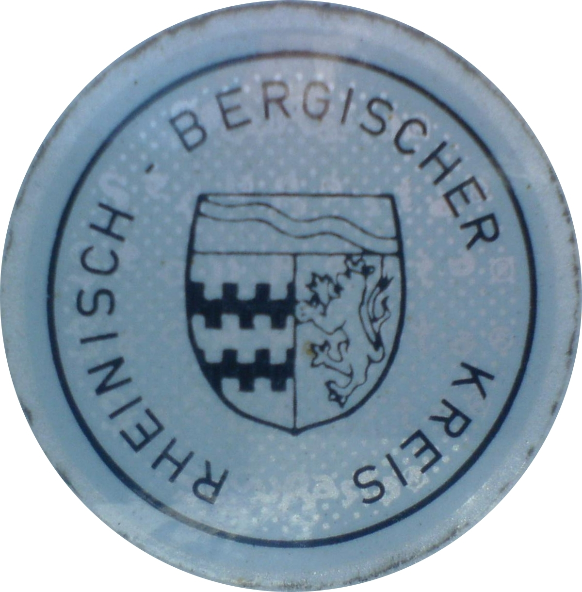 Seal of a German motor vehicle registration plate: district of Rheinisch-Bergischer Kreis, North Rhine-Westphalia